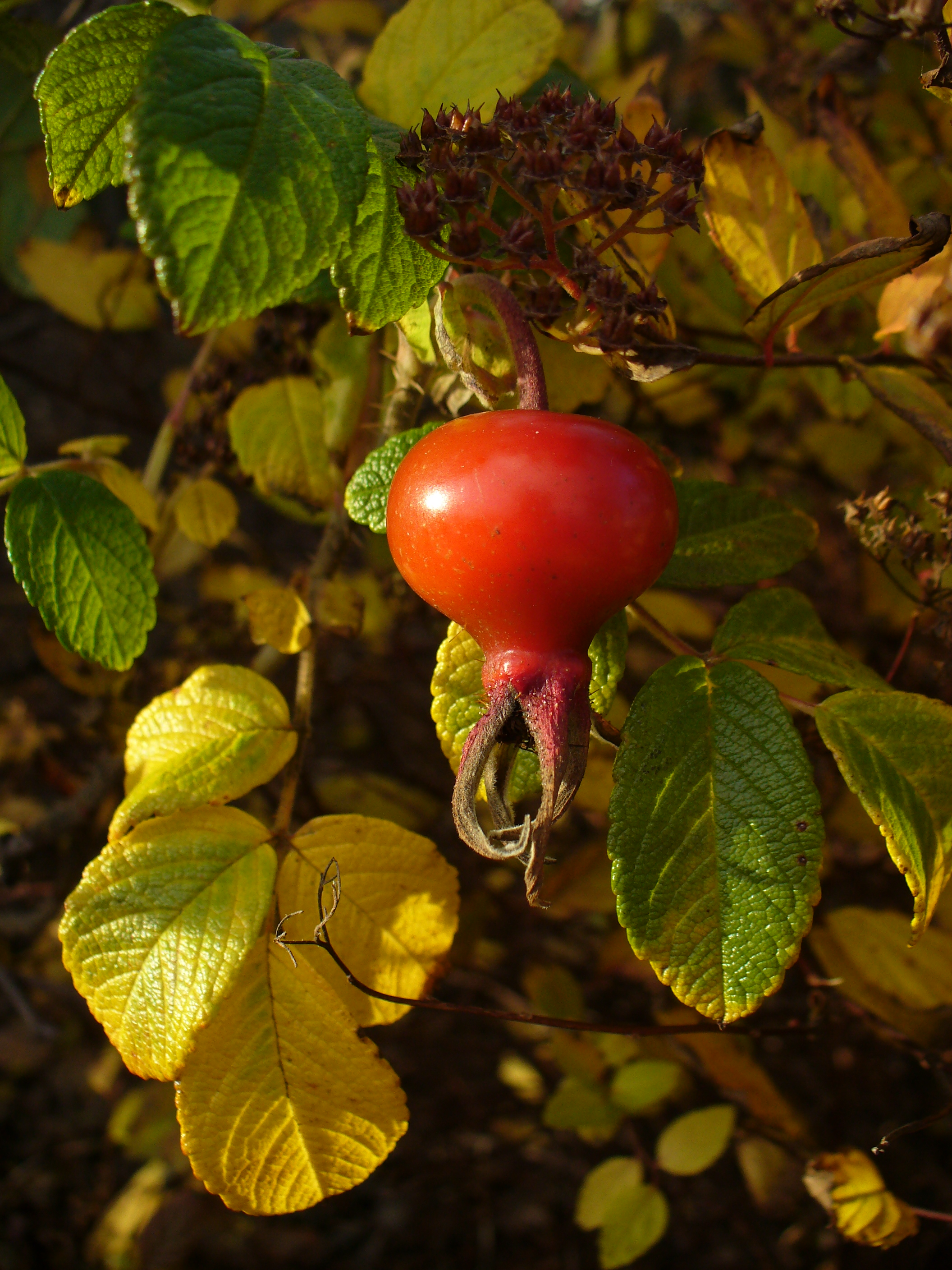 I am the originator of this photo. I hold the copyright. I release it to the public domain. This photo depicts a Rosa rugosa hip.